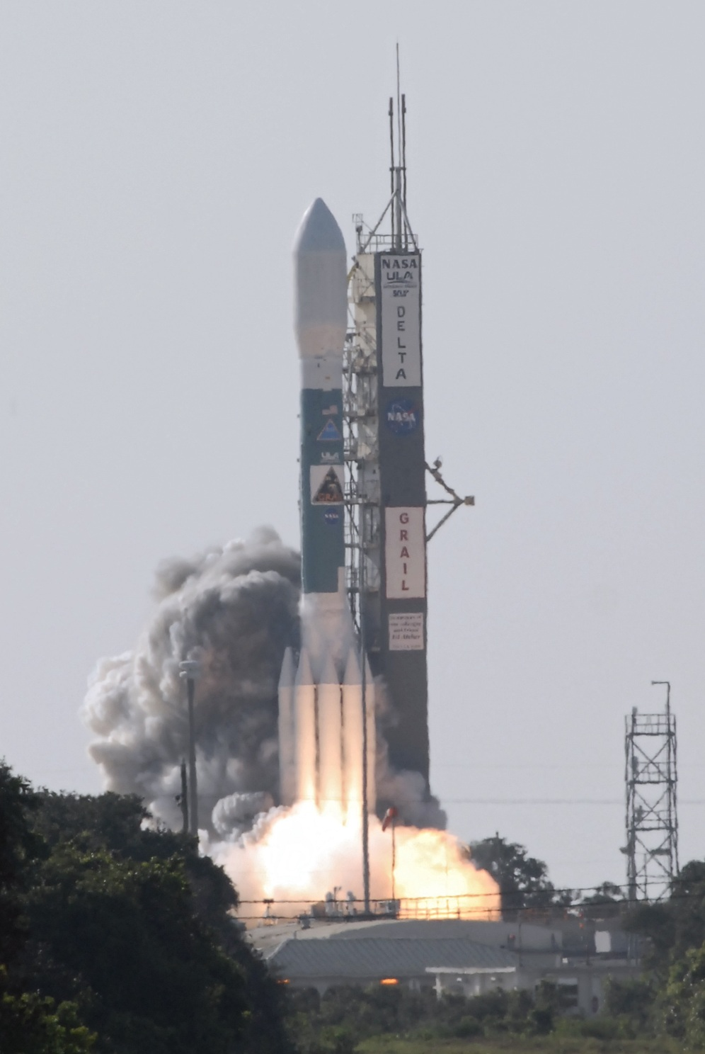 CAPE CANAVERAL, Fla. – The United Launch Alliance Delta II Heavy rocket lifted off at 9:08 a.m. EDT Sept. 10 from Space Launch Complex 17B on Cape Canaveral Air Force Station in Florida carrying NASA’s twin Gravity Recovery and Interior Laboratory (GRAIL) mission to the moon.